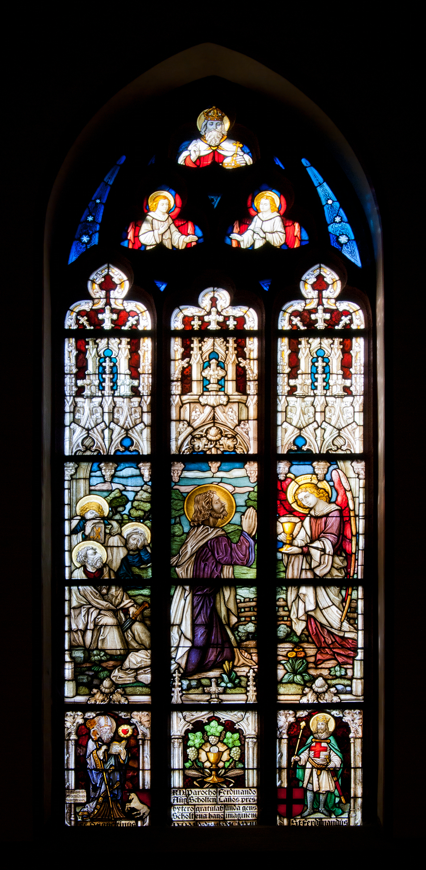 Krefeld (North Rhine-Westphalia, Germany) – district Hüls – Catholic Saint Cyriacus Church – stained glass window of Jesus at Mount of Olives by Gustav van Treeck in 1913 This image shows a heritage building in Germany, located in the North Rhine-Westphalian city Krefeld (no. 121). This photograph was taken with a Nikon D3000